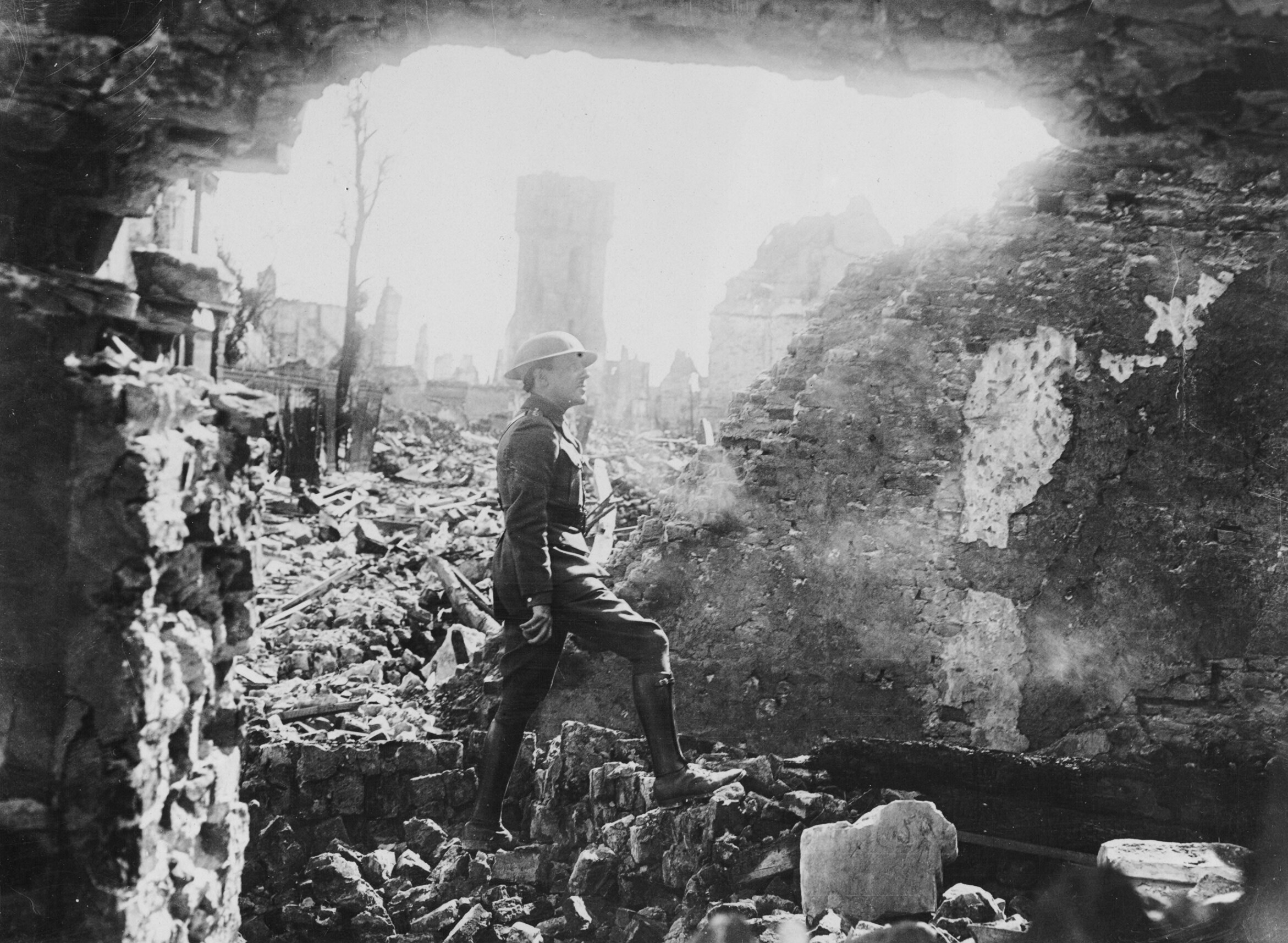 British soldier in the ruins of Bethune, France, during World War I. A British soldier stands in the shell of a building in the French town of Bethune. In the distance behind him is the belfry or clock tower, built in 1376. The belfry was one of the few buildings in Bethune's Grand Place to survive with only minor damage, and it still dominates Bethune today. Most of the town had to be rebuilt in the 1920s and 30s. This is one of a series of photos of Bethune taken by Tom Aitken during and after the heavy German bombardment of the town in April 1918. Bethune was an important strategic link on the Western Front, and British forces ultimately defended it from recapture by German troops. [Original reads: 'OFFICIAL PHOTOGRAPH TAKEN ON THE BRITISH WESTERN FRONT IN FRANCE. The successful advance of 18/9/18. A picturesque view of the ruined town of Bethune.']